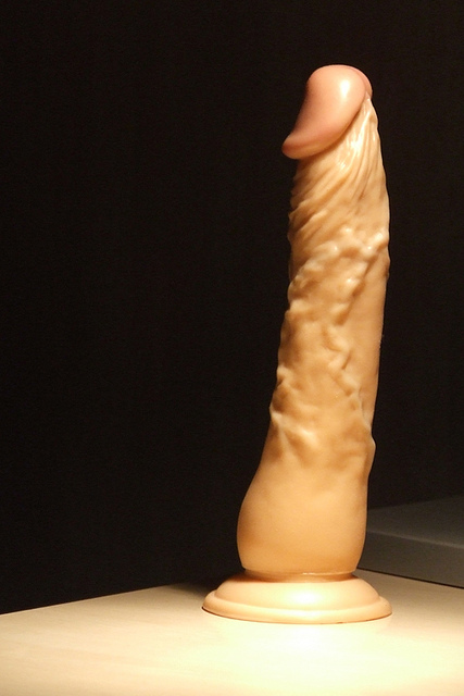 Really big boy here. But I can manage some of it ;-)